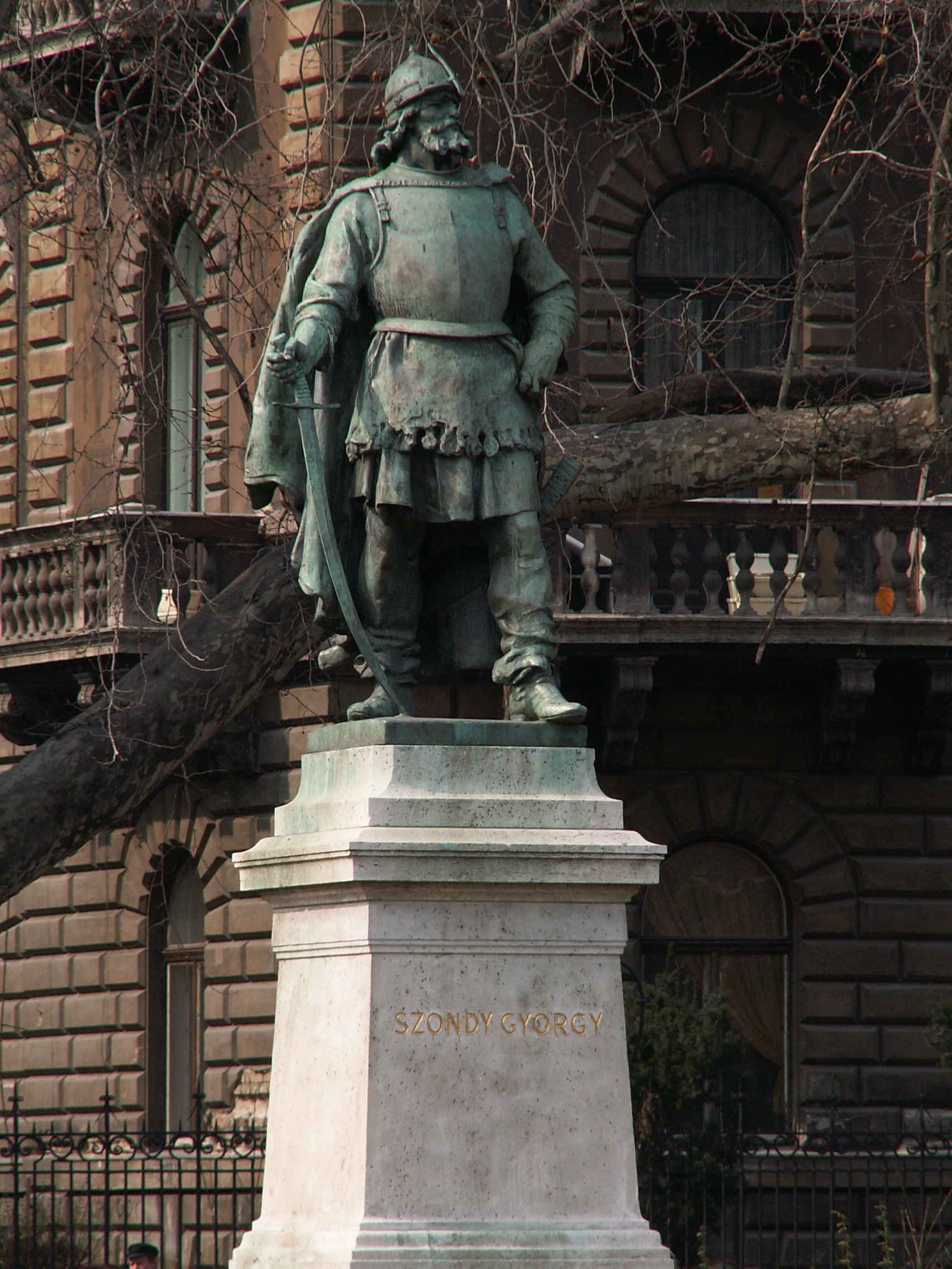 Photo of the György Szondy statue in the Kodály Körönd (Sculptor: László Marton, 1955.)